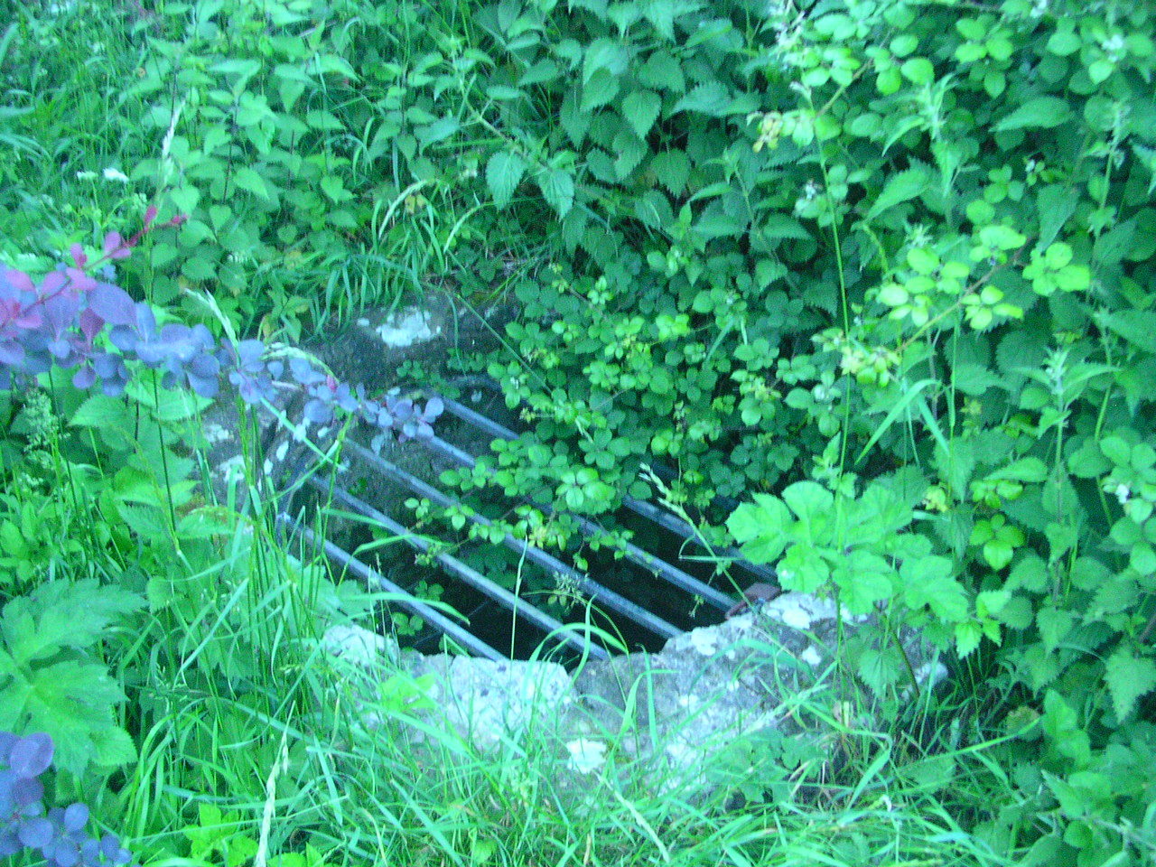 St. Peter's Well, a spring at Lodsworth, West Sussex, England, which was a medieval place of pilgrimage, especially for people with eye problems.